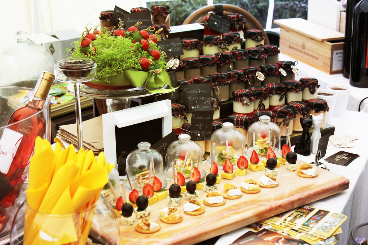 сирні страви на Святі